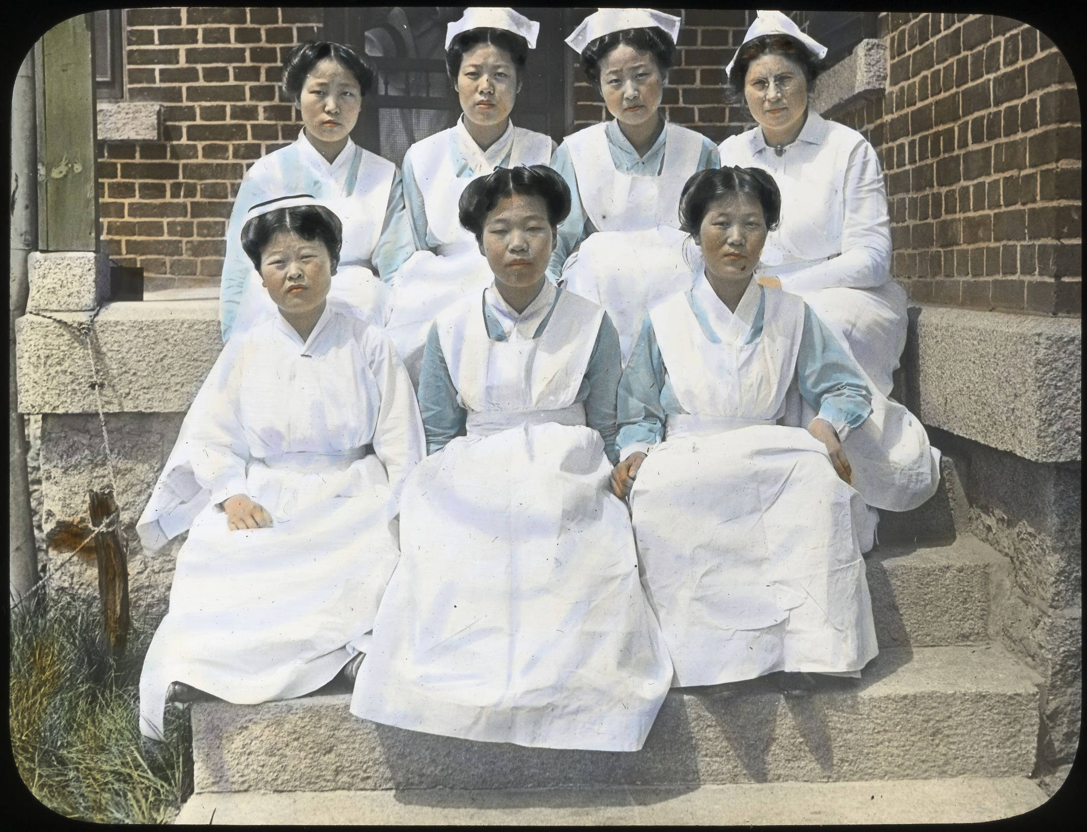 Group of nurses at Haju Hospital, [s.d.] At several hospitals, young Korean women of special promise are given training as nurses. The Seoul hospital has thirty such women in training, and graduates about fifteen students yearly. Date created: 1908/1922 Publisher (of the Digital Version): University of Southern California. Libraries Repository Name: Methodist Church (U.S.) Legacy Record ID: kda-m44 Photographer: Methodist Episcopal Church Format: photograph Archival file: kda_Volume42/Taylor_box45num31.jpg Rights: "Neither the General Conference nor any General Agency of The United Methodist Church (successor to the Methodist Episcopal Church) claims any interest in the photos or images." Part of subcollection: The Reverend Corwin & Nellie Taylor Collection Coverage date: 1908/1922 Contributing entity: University of Southern California Repository Address: Nashville, Tennessee Part of collection: Korean Digital Archive Donor: Taylor, Ewing Bevard Filename: Taylor_box45num31 Type: images Geographic Subject (City or Populated Place): Haju Geographic Subject (Country): Korea Compiler: Taylor, Corwin; Blood-Taylor, Nellie